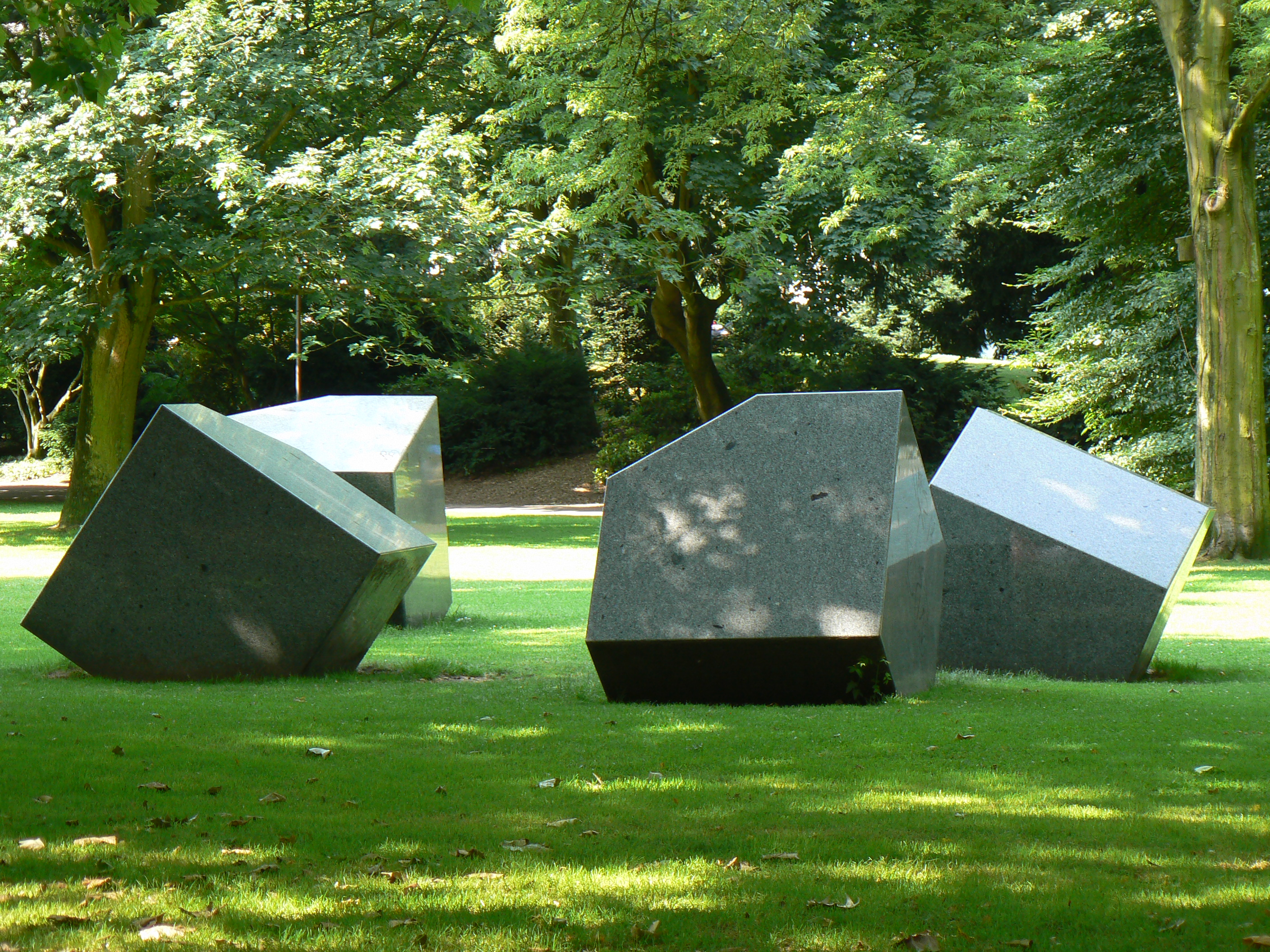 sculpturegroup Skulptur für eine Ebene (1977) by André Volten in Duisburg/Germany